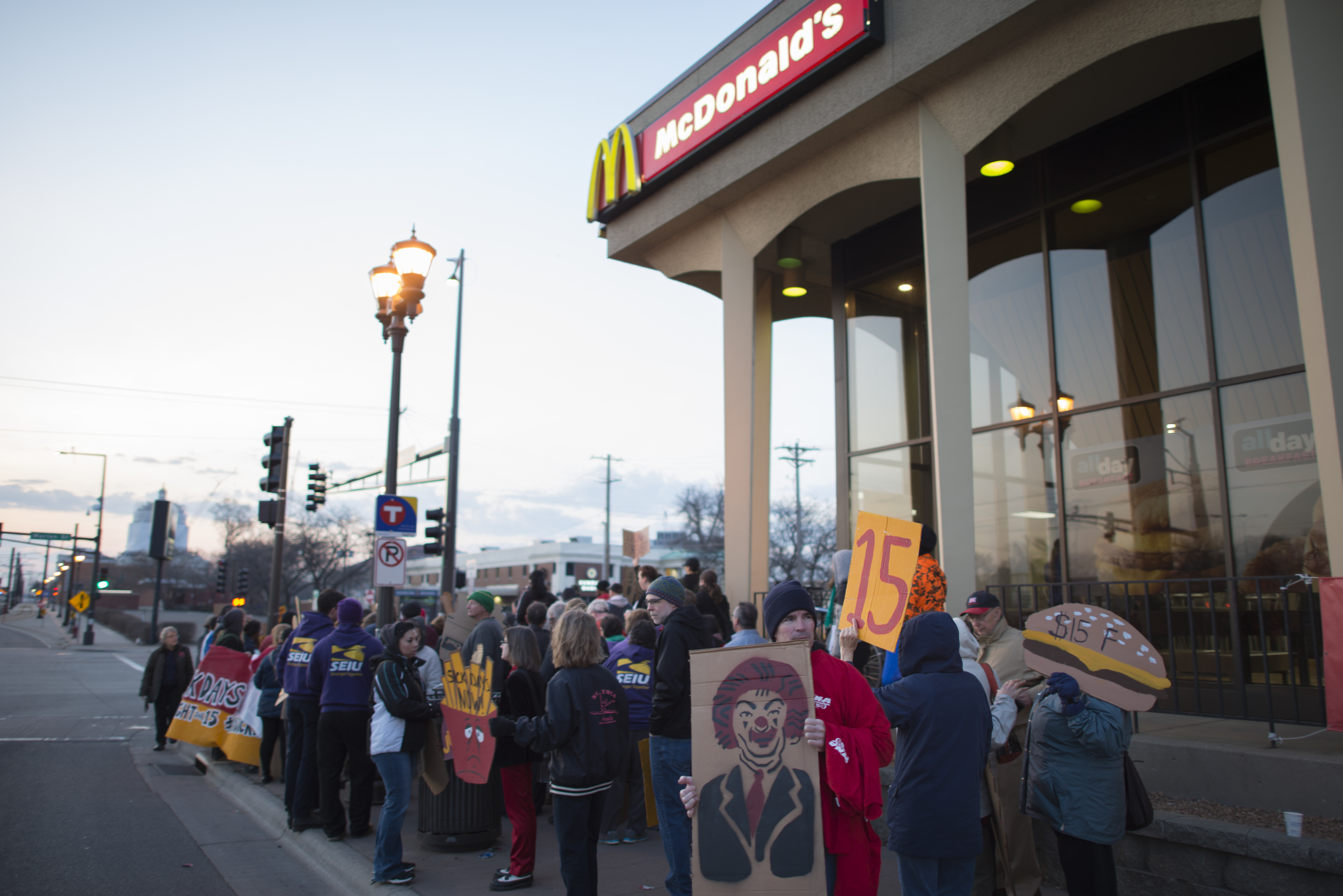 St. Paul, Minnesota April 14, 2016 On April 14, fast food workers around the USA walked out on strike. Protesters gathered outside the McDonald's restaurant at University Avenue and Marion Street in St. Paul and called for a $15 per hour minimum wage, paid sick days, and union rights. Within the last year, the cities of Seattle, Los Angeles, San Francisco, and New York have raised the minimum wage to $15 per hour. 2016-04-14 This is licensed under a Creative Commons Attribution License. Give attribution to: Fibonacci Blue